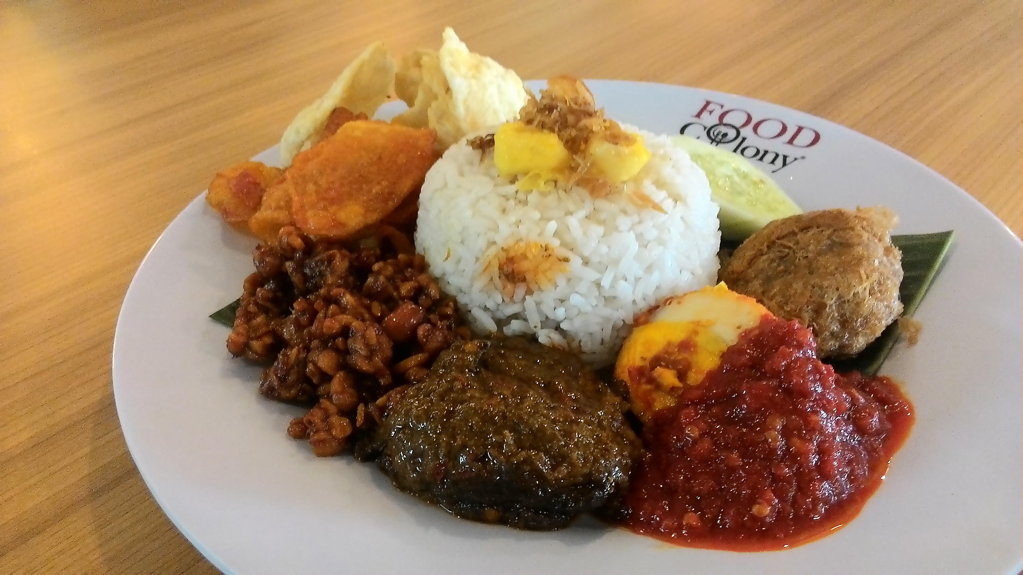 Nasi Lemak Medan Bang Salim with beef rendang, served in Food Colony foodcourt in Plaza Festival, Kuningan area, South Jakarta, Indonesia. Nasi lemak here is served with emping cracker, cucumber, perkedel kentang (potato patty), telur balado (chili egg), beef rendang, tempe orek (sweet tempeh), kripik kentang (spicy potato chips), sprinkled with bawang goreng (fried shallot) and bits of egg.